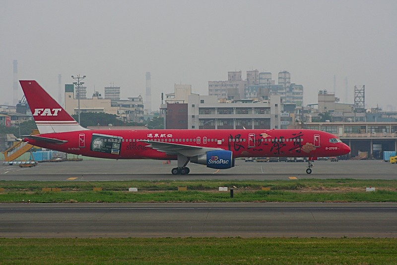 Boeing 757-27A cn 29608/835 "B-27013" from Far Eastern Air Transport in Kaohsiung